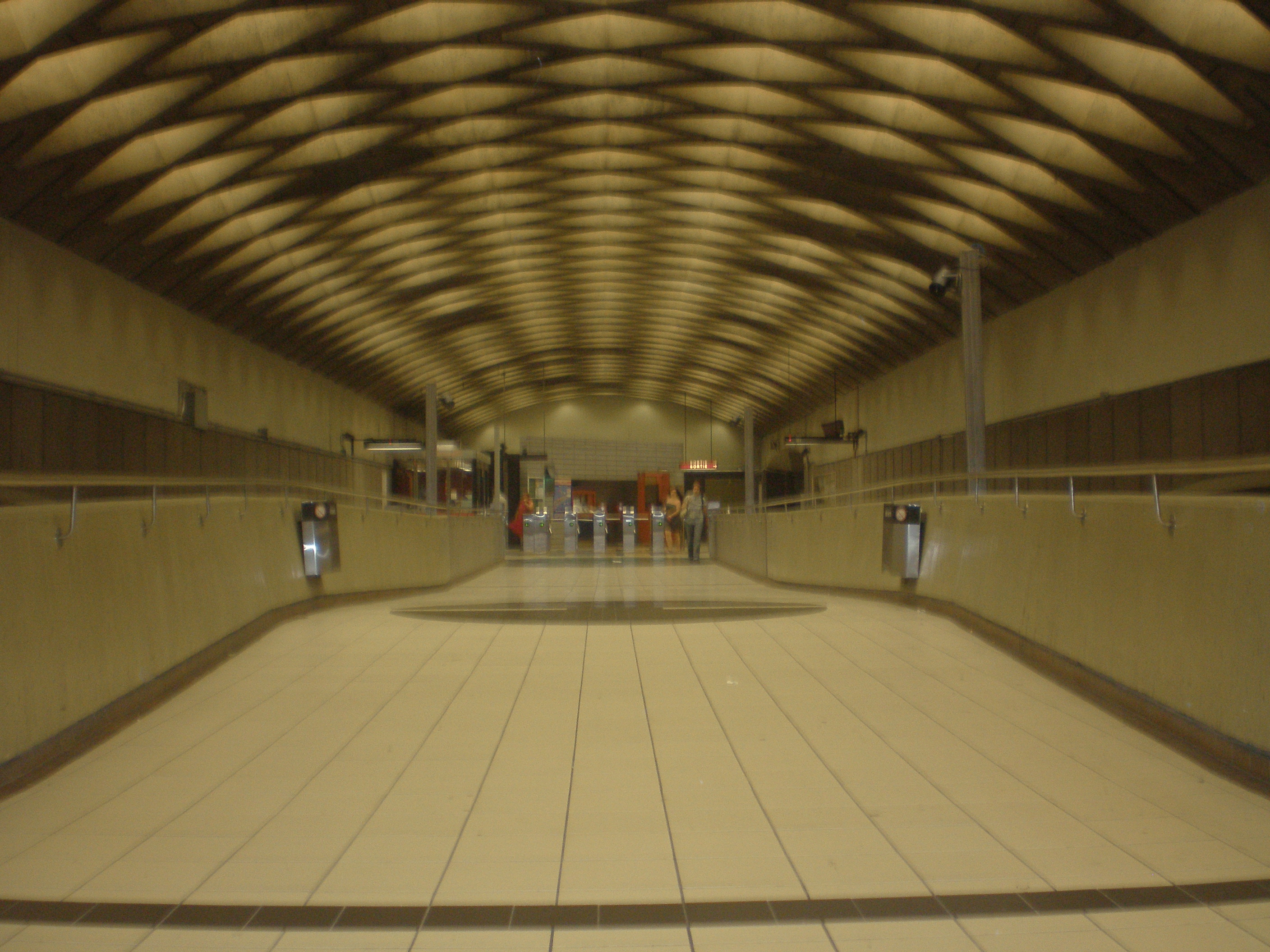 Jarry station of Montreal metro.